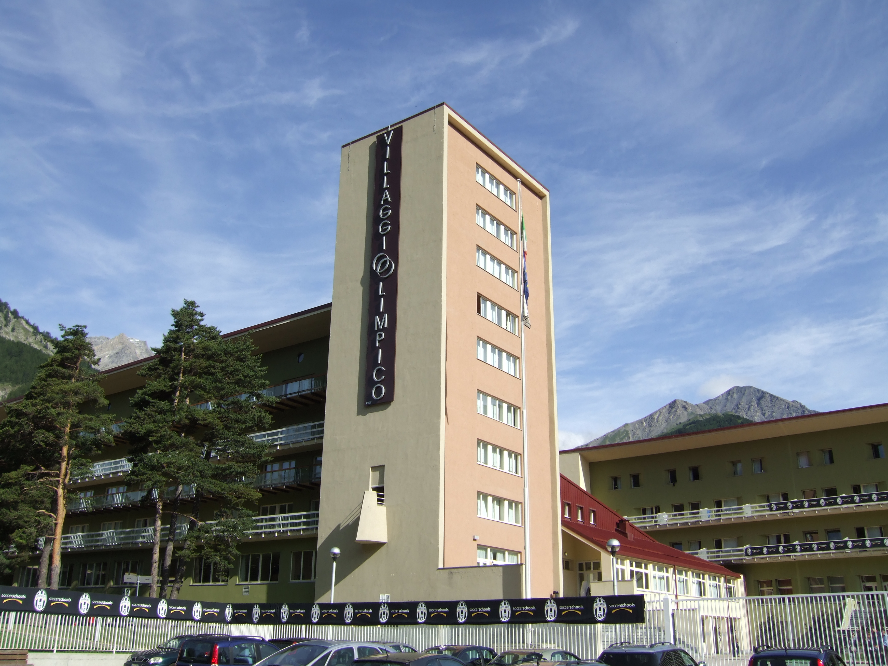 Olympic Village in Bardonecchia (Italy)